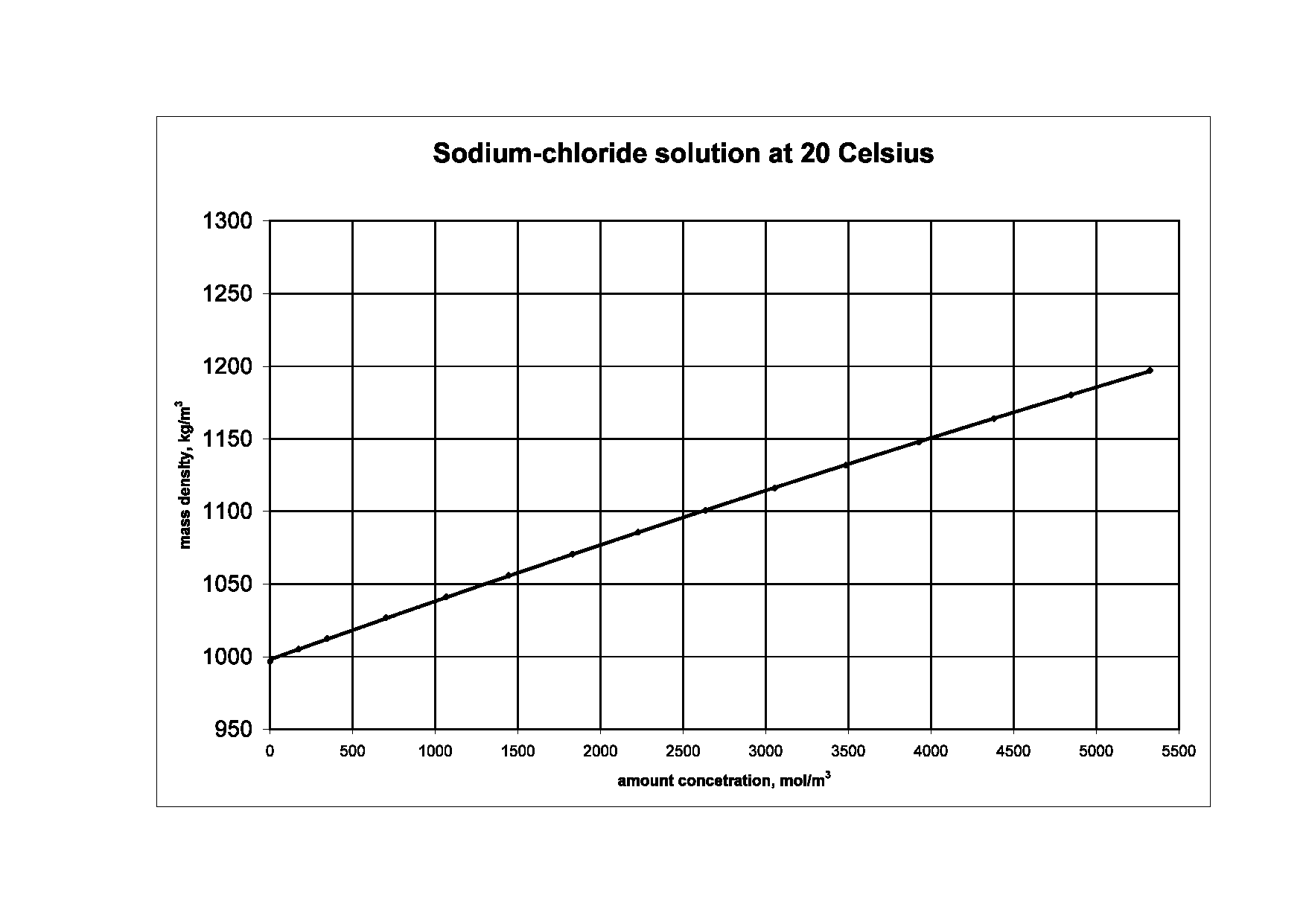 Density of Sodium-Water solution as a function of amount concentration